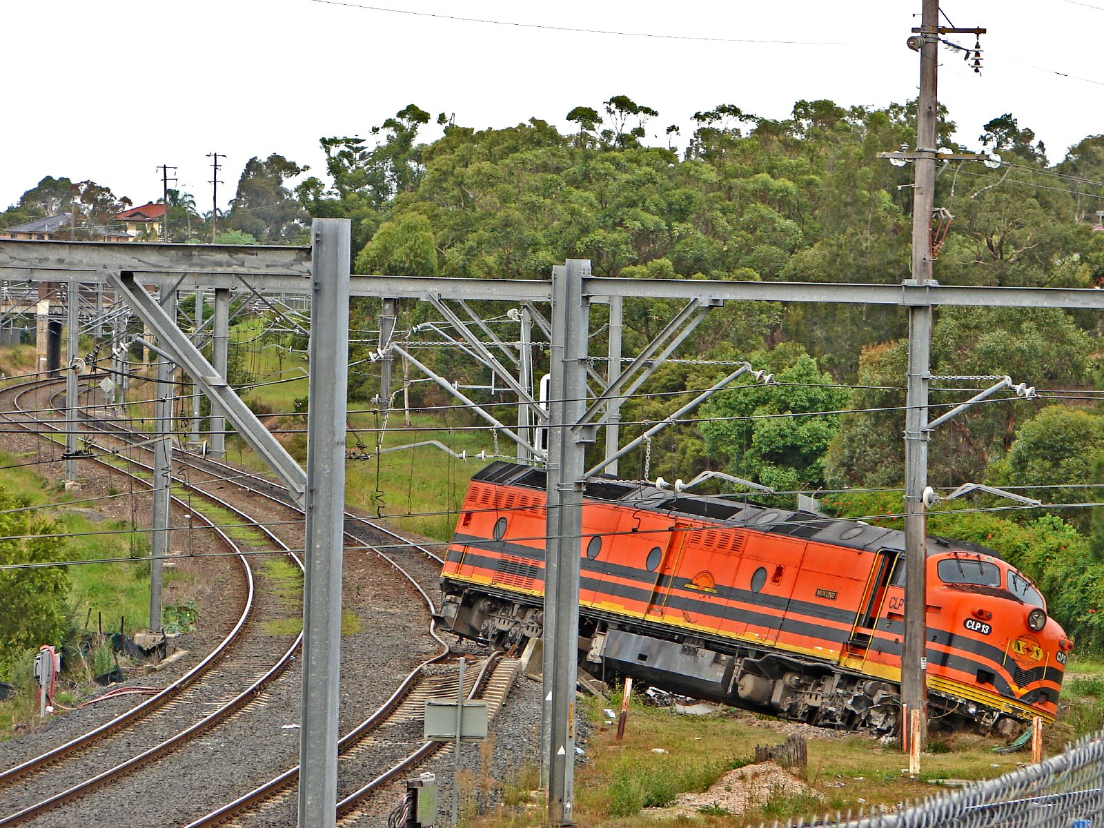 A goods train derailment in or near Birrong, New South Wales